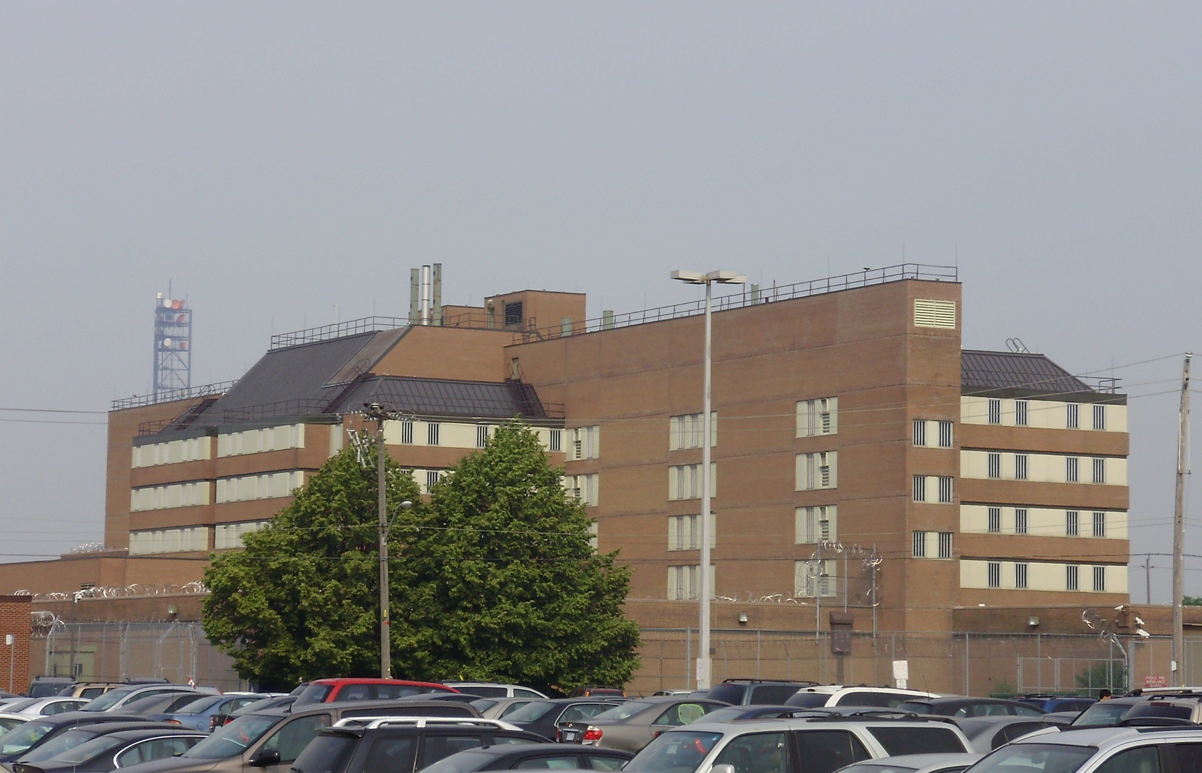 The Toronto East Detention Centre, a prison facility operated by the provincial government, off Eglinton Avenue East in Scarborough, Ontario, Canada. Photographed from a parking lot to the east of the facility.